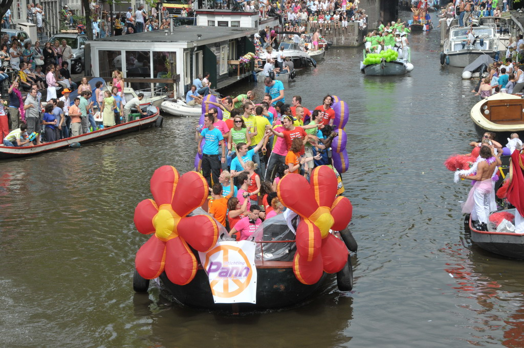 Amsterdam Gay Pride 2008